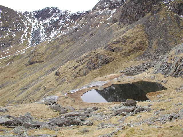 Hard Tarn. The summit in the distance is Dollywagon Pike, Ruthwaite Cove is off to the left.